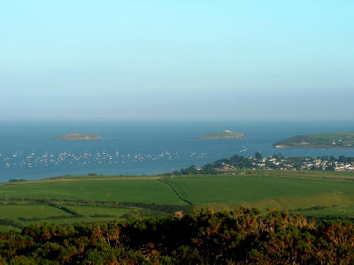 St. Tudwal's Islands from Mynytho